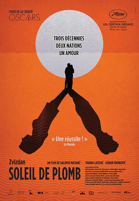 Poster of the movie The High Sun (Q19824702)